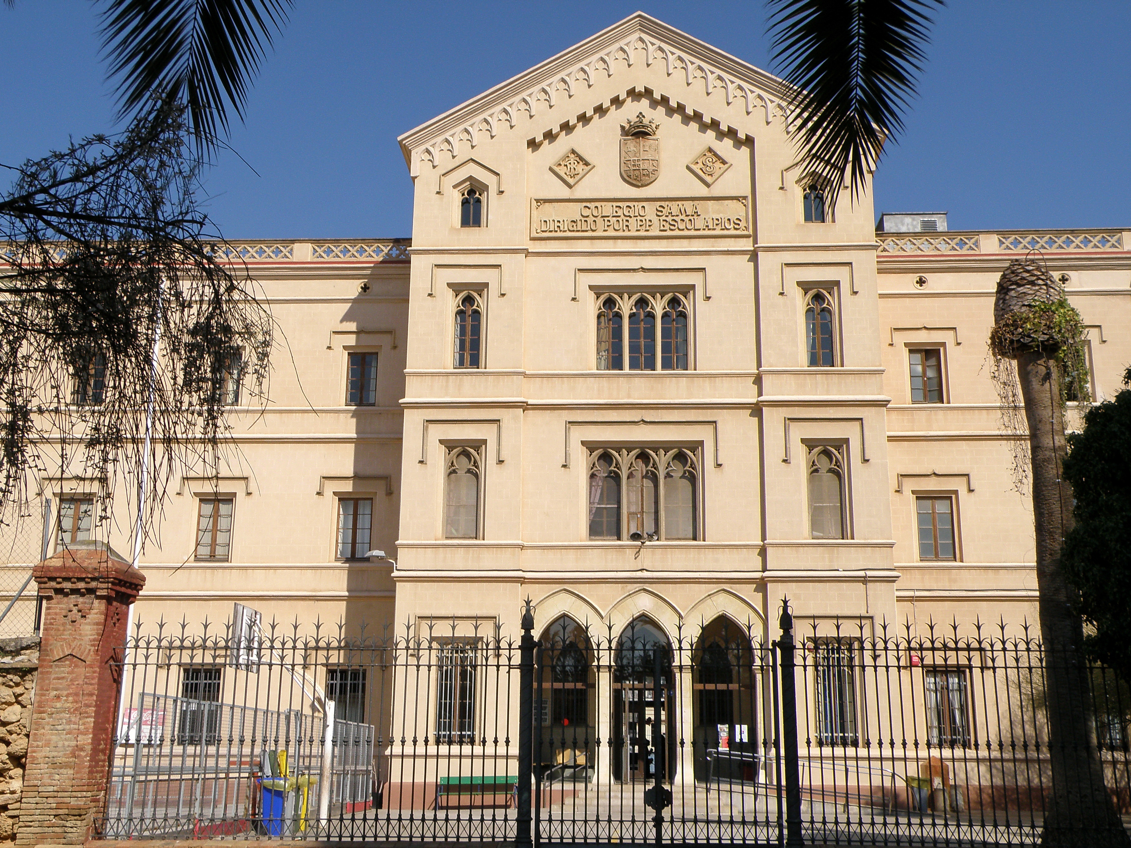 Samà school in Vilanova i la Geltrú established in 1884